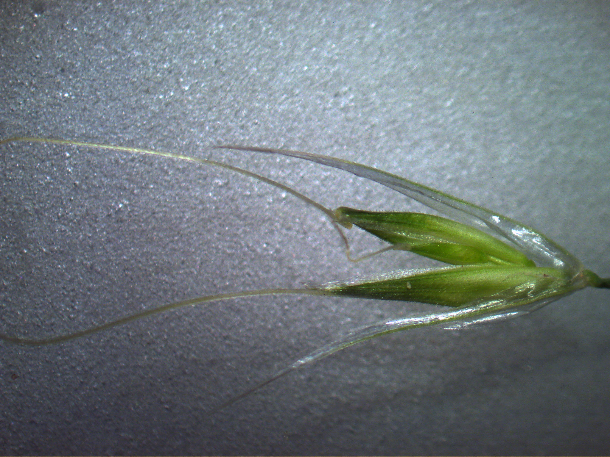 Fertile spikelets are 1-5-flowered (2-flowered here), with ovate awned florets (5-7 mm long) and 2 well developed glumes.